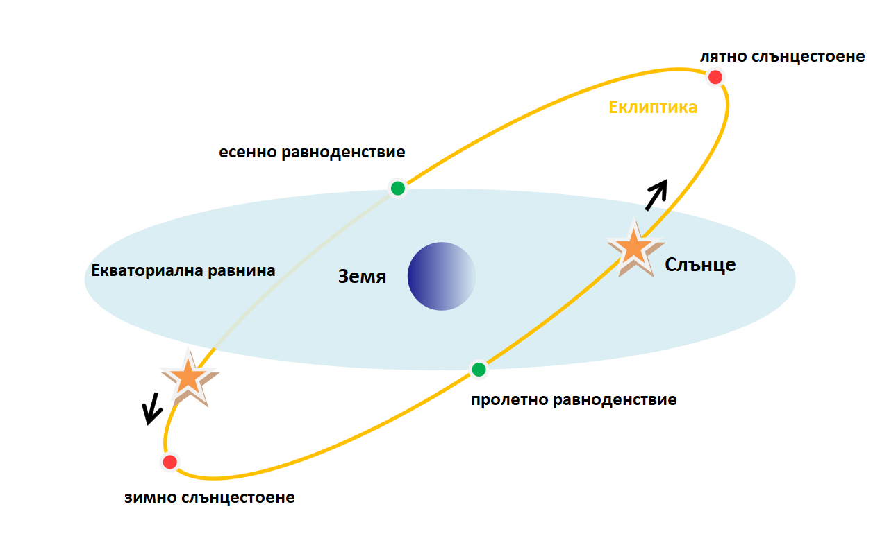 Two equinoxes are shown as the intersection of the ecliptic and celestial Ecuador, and the solstice’s times of the year in which the Sun reaches its maximum southern or northern position.